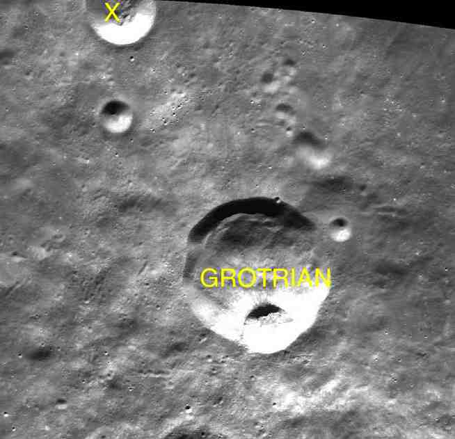 Part of the chart LAC-140 used for the presentation